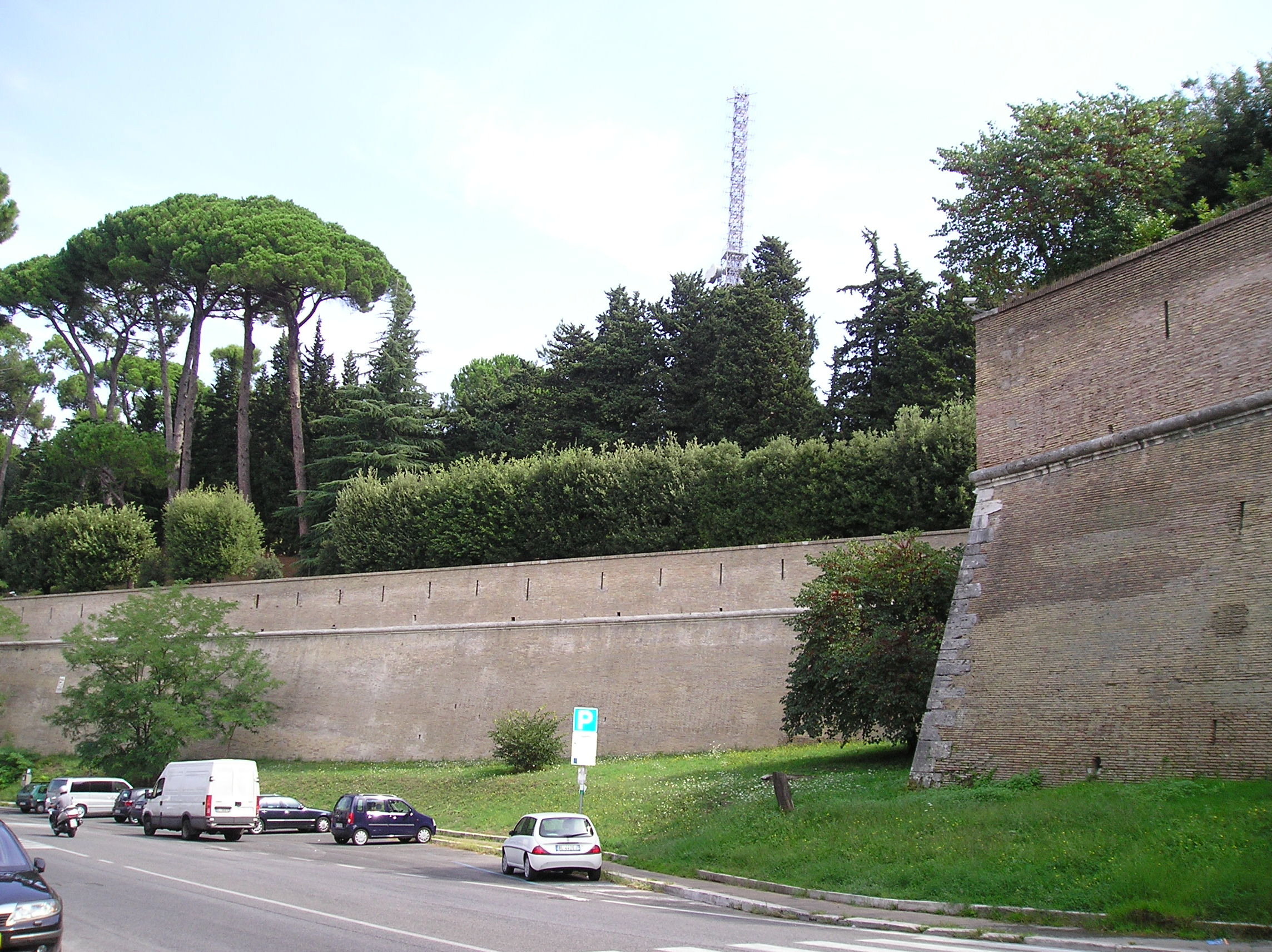 Mura Vaticane (backside) - Rome - Italy